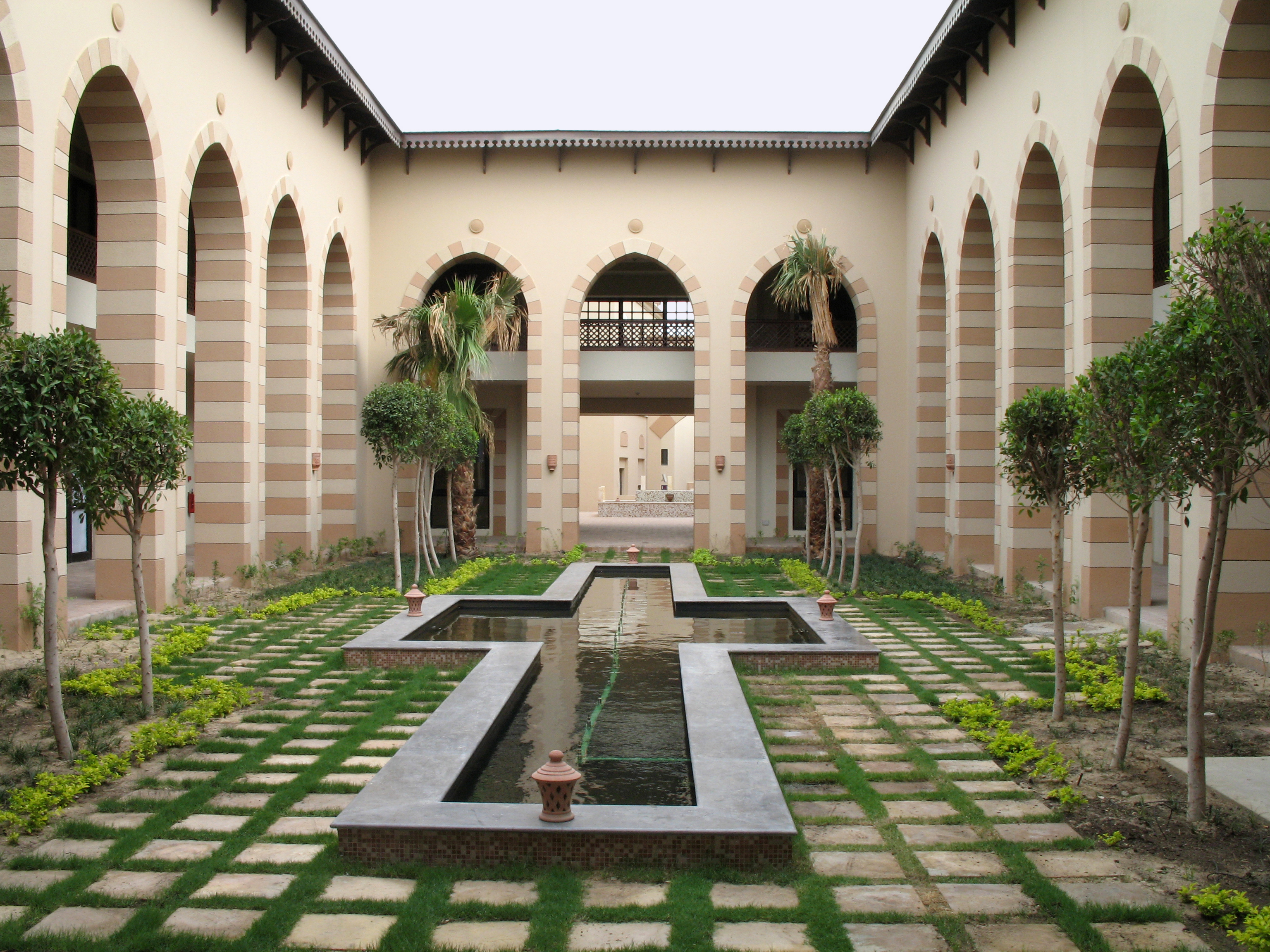 Inner court at Port Ghalib (Marsa Alam, Red Sea, Egypt)